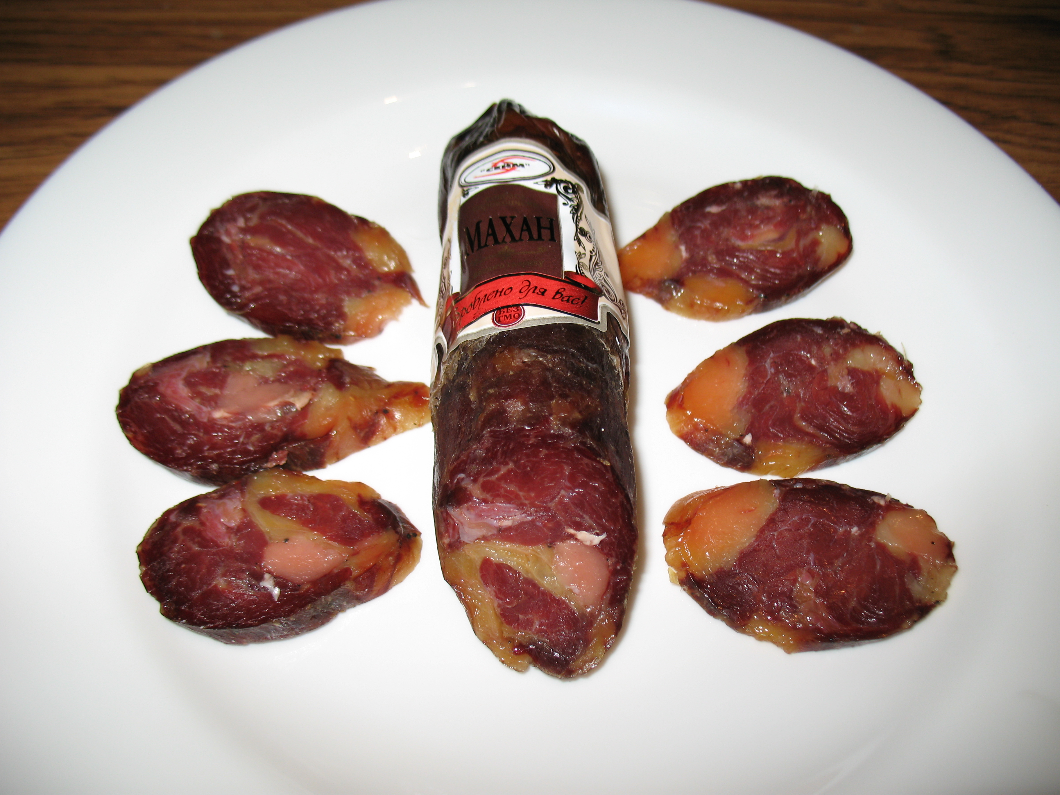 Mahan - a traditional sausage made from horsemeat from the Tatars and some Turkic peoples. In many regions and cities of Ukraine with the multi-ethnic population, mahan - the coveted delicacy in the international holiday menu.